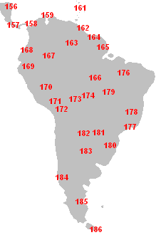 Distribution of standard cross-cultural sample cultures in South America